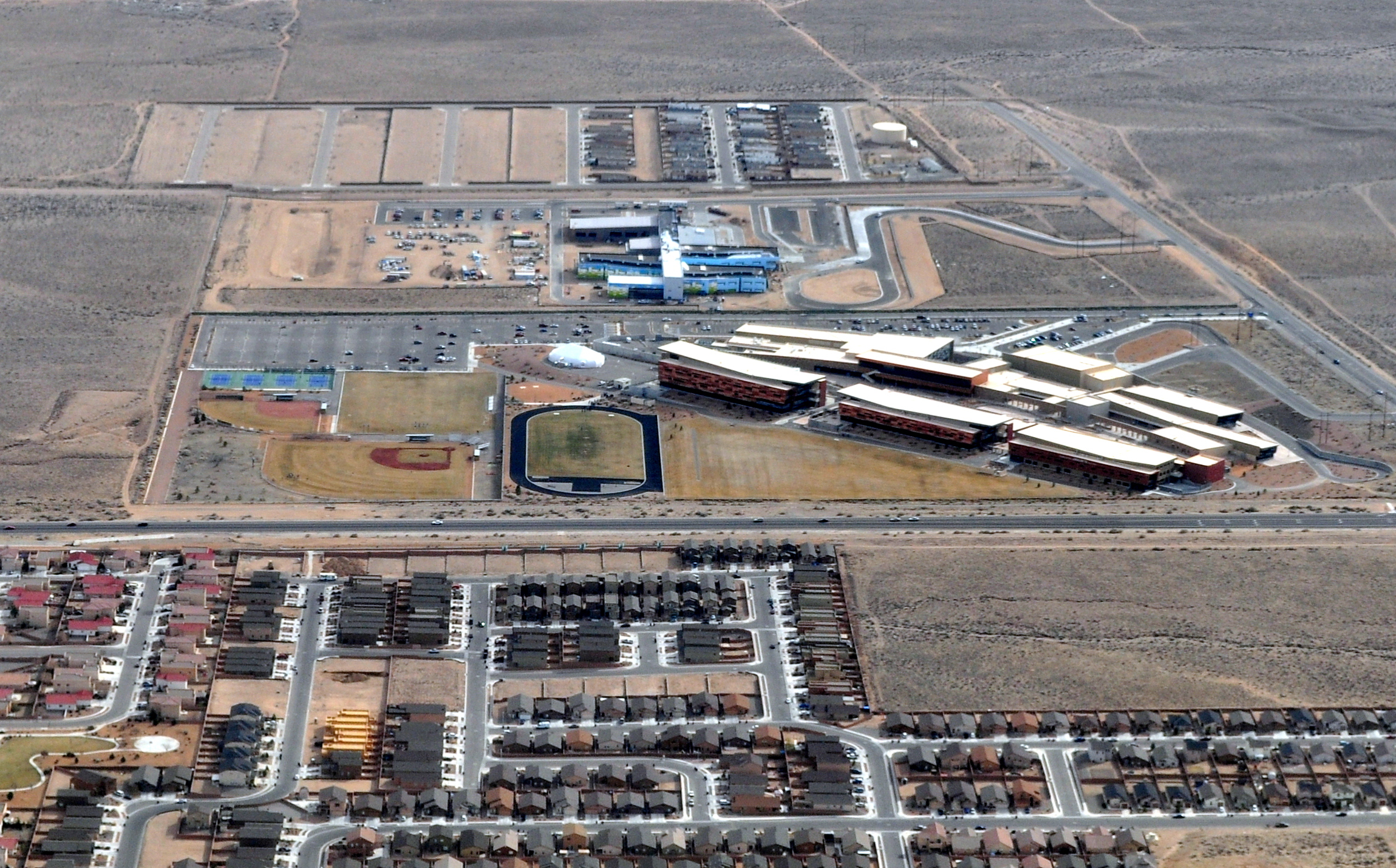 Aerial view of Atrisco Heritage Academy High School, Southwest Mesa, Albuquerque, New Mexico; looking roughly south. Object location35° 01′ 20.49″ N, 106° 45′ 02.89″ W